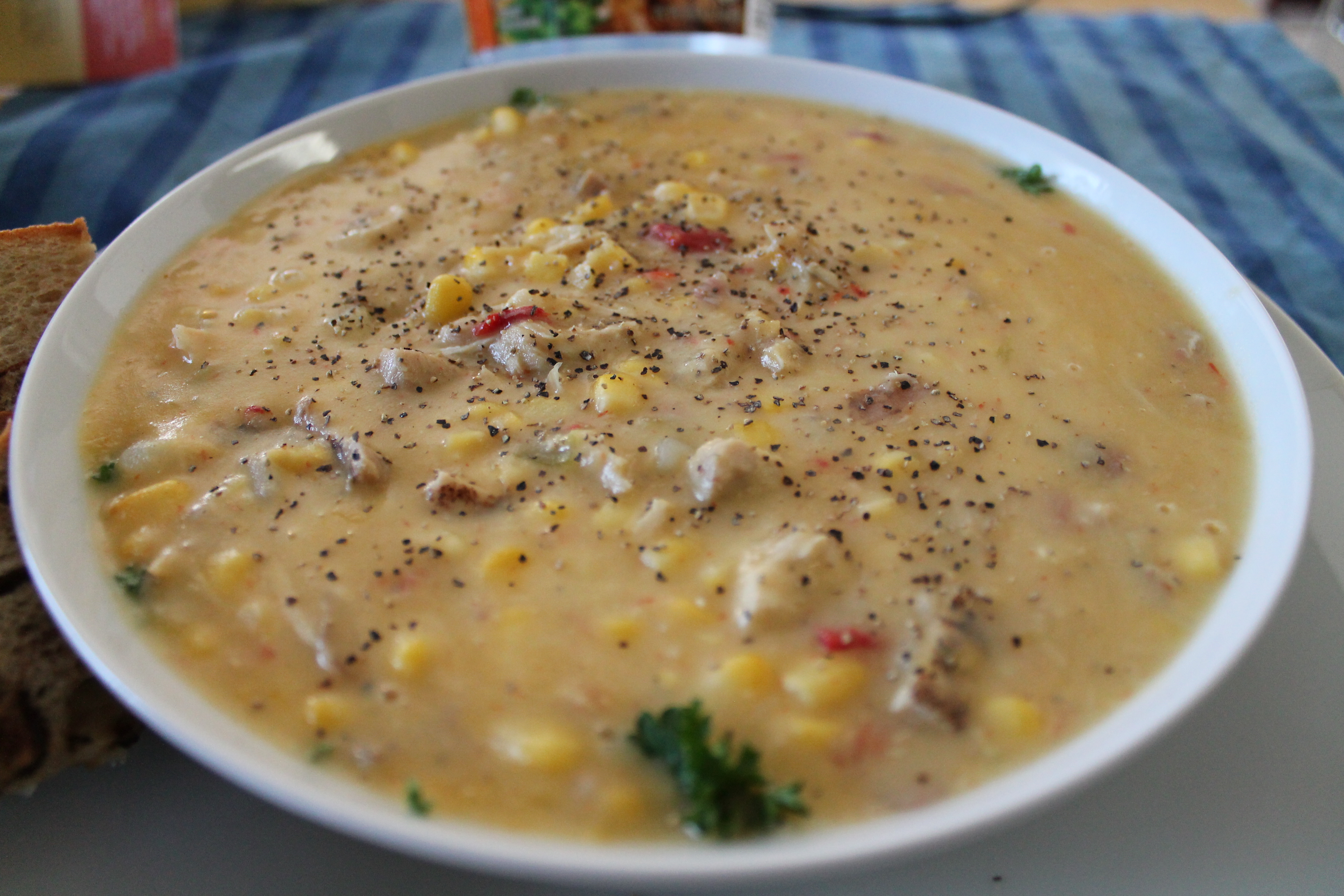 Dinner at home in West Hyattsville MD on Saturday evening, 9 February 2013 by Elvert Barnes Photography Safeway SIGNATURE CAFE Chicken & Sweet Corn Chowder w/ith fresh parsley, scallions and pepper